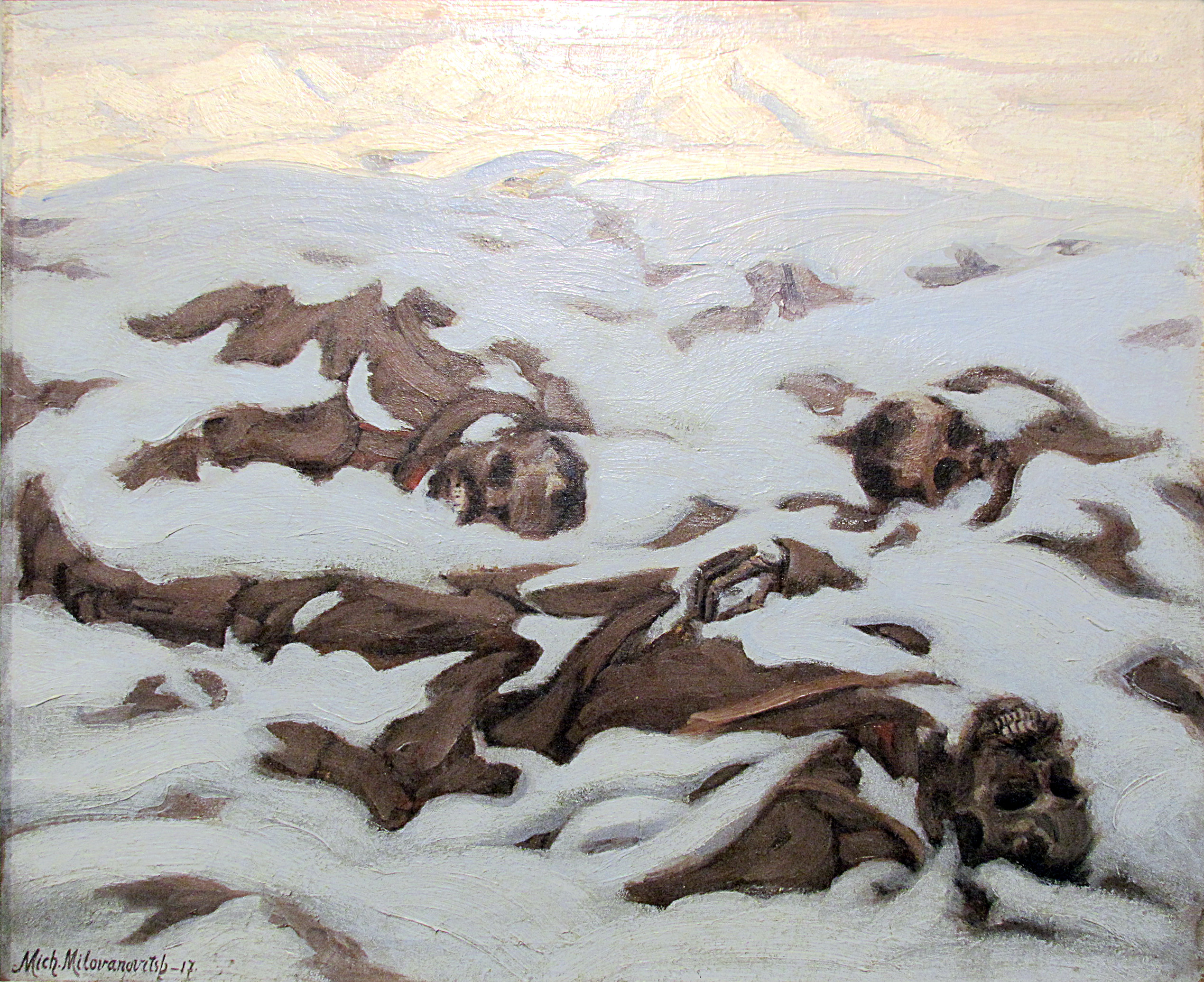 Peace (War Museum of Belgrade)